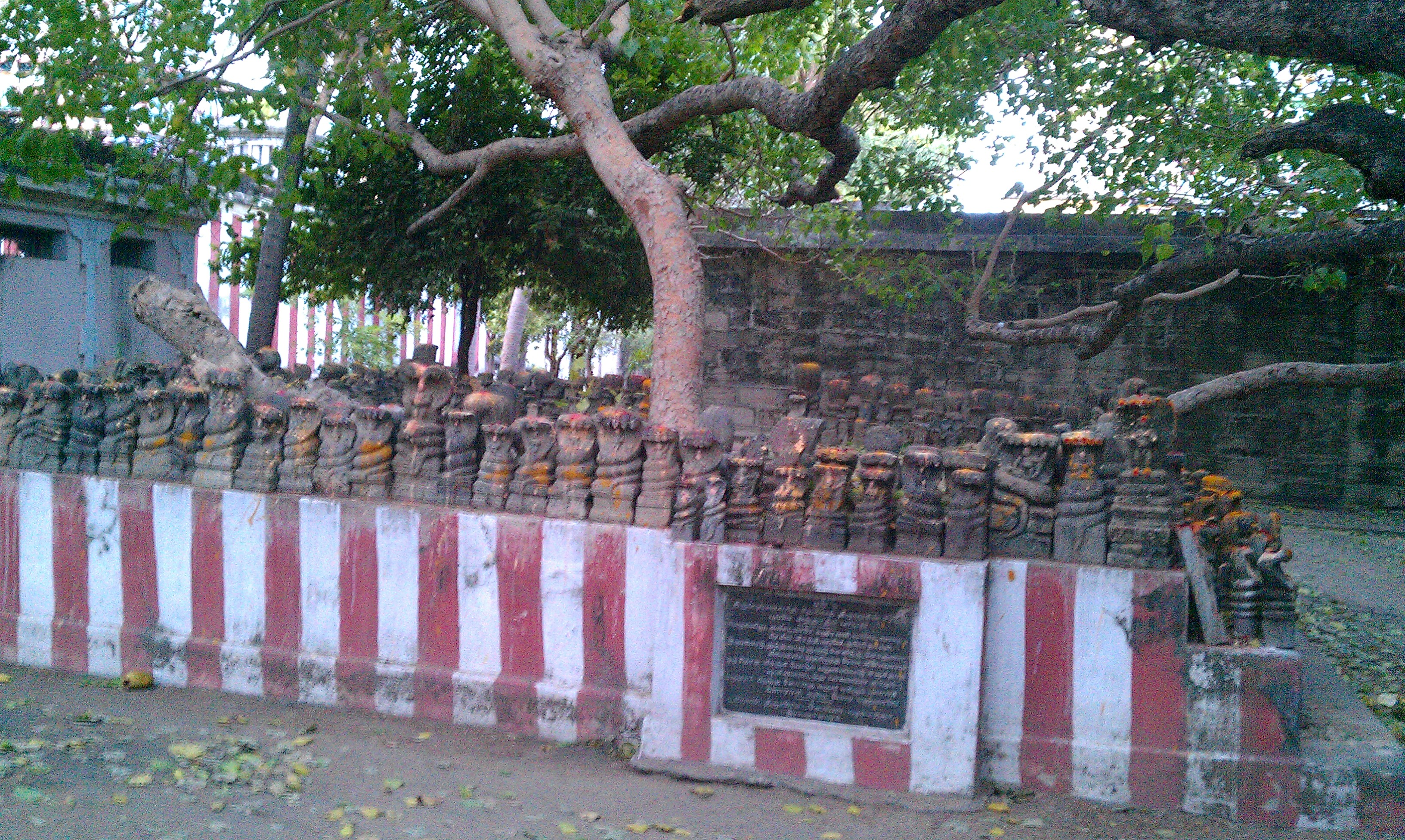 Tirupullani